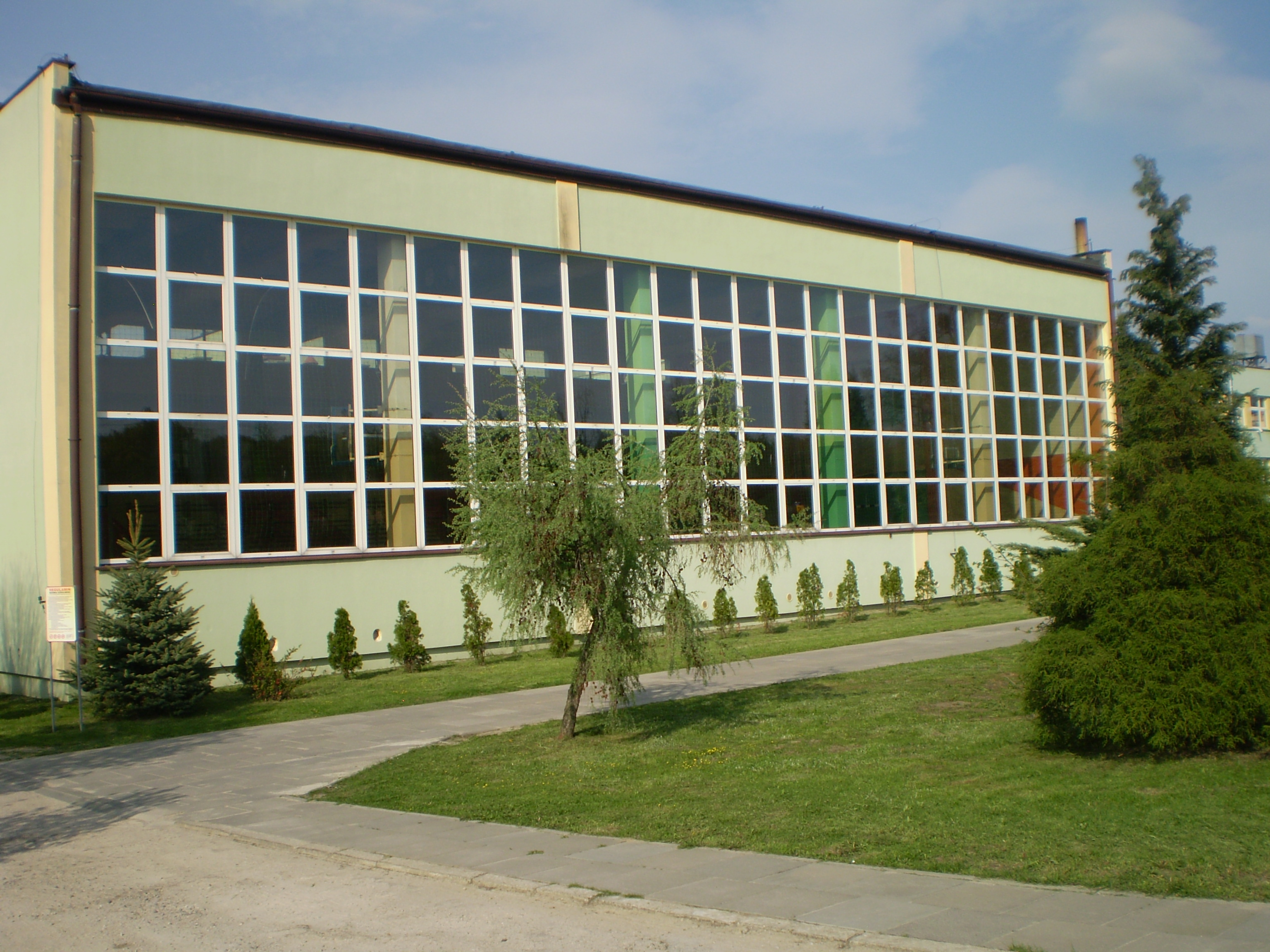 Zadzim